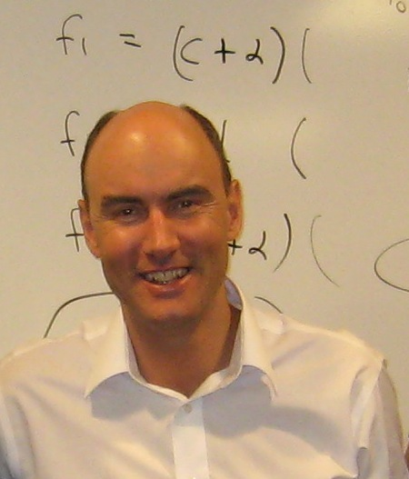 Martin Nowak at PED